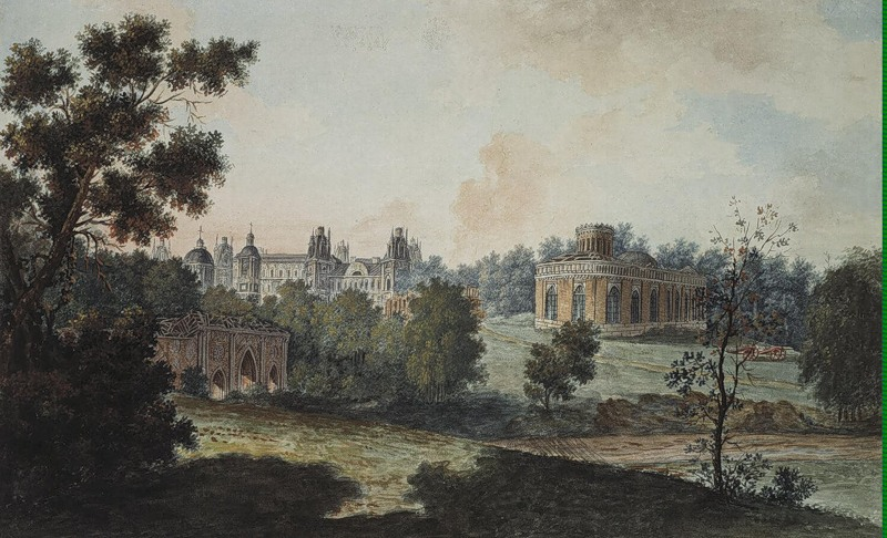 en: Fedor Alekseev Title